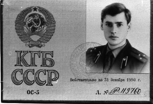 Scan of the first KGB's member card of Mr Zhirnov Sergey